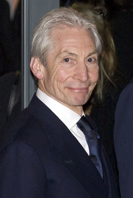 Charlie Watts, Opening of the 58th Berlin International Film Festival